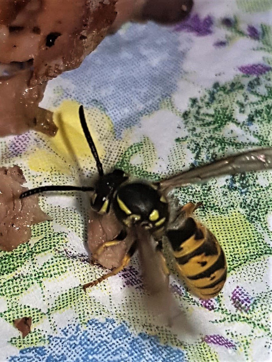 European wasp, German wasp or German yellowjacket (Vespula germanica) in London, England.